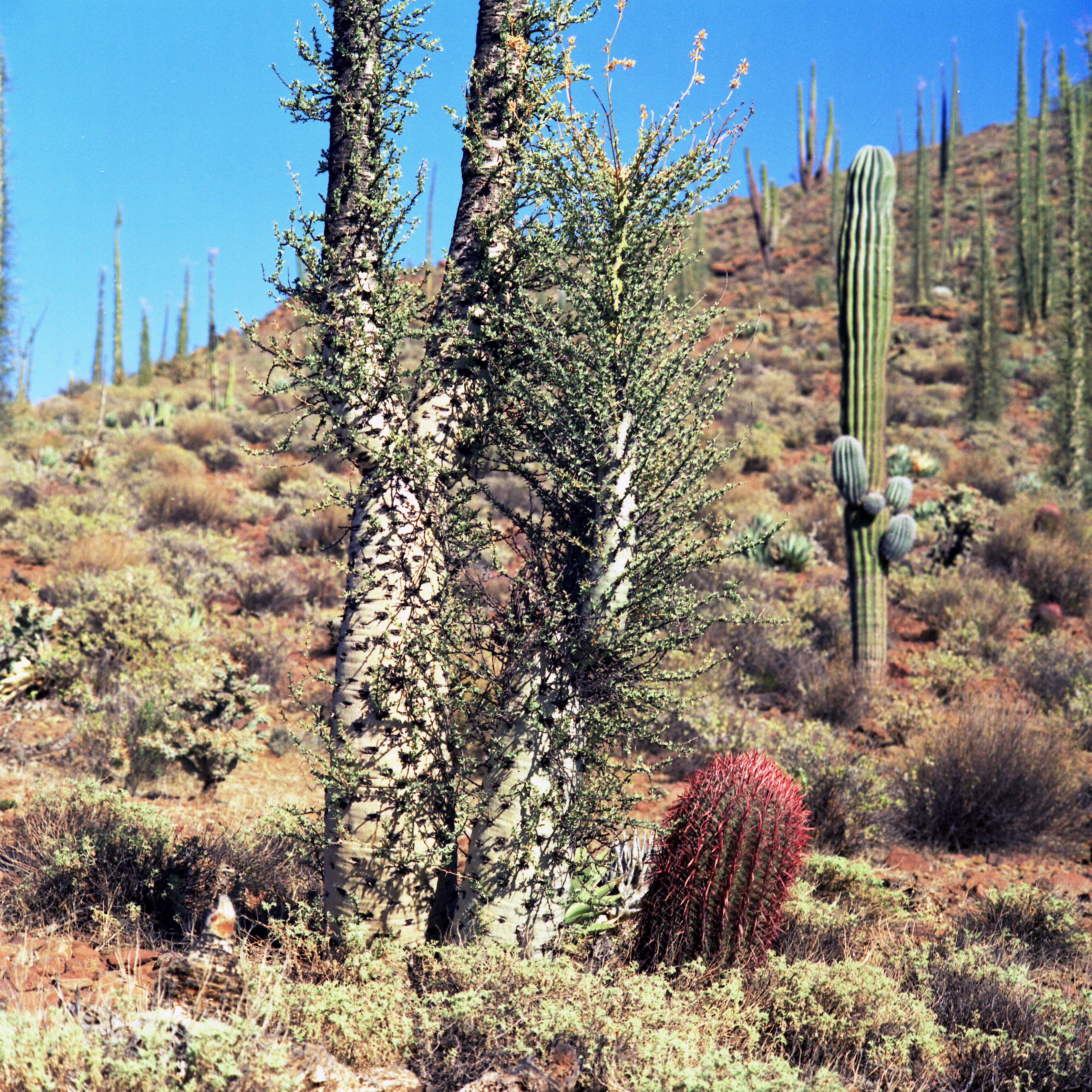 Dry land; terra firma; barren land; aridness; solitariness. Valle de los Cirios, Baja California.